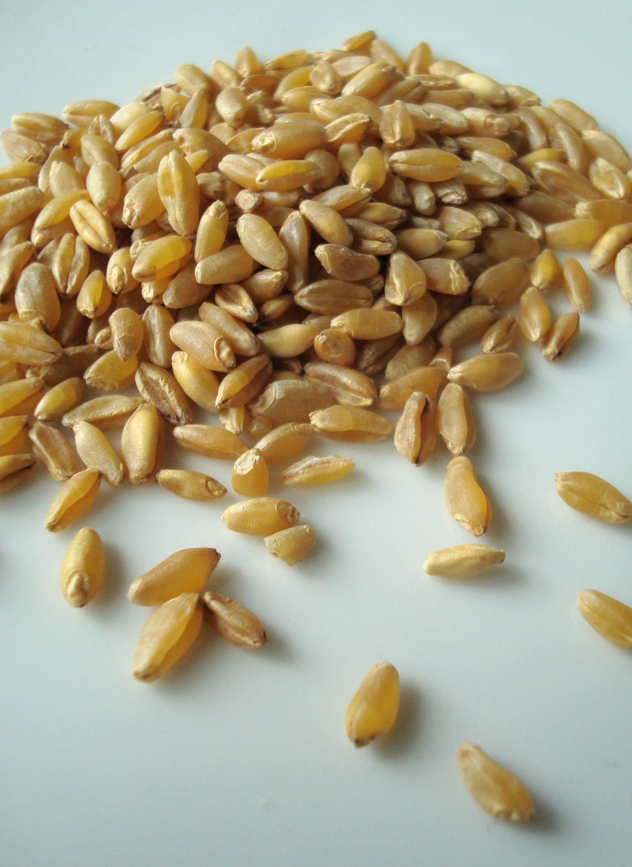 Triticum durum grains on a porcelain plate